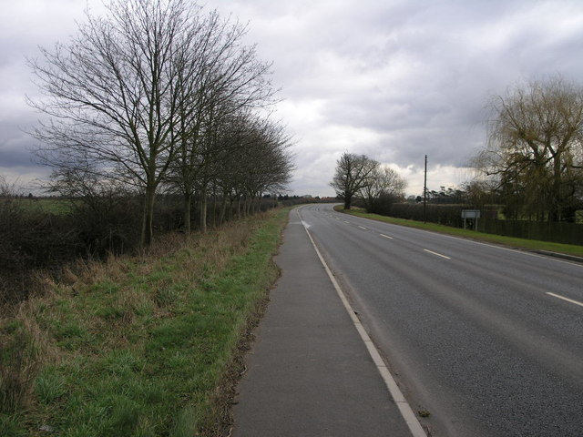 A616 Avenue. Just around this corner the A616 turns sharp right to cross the River Trent at Muskham Bridge